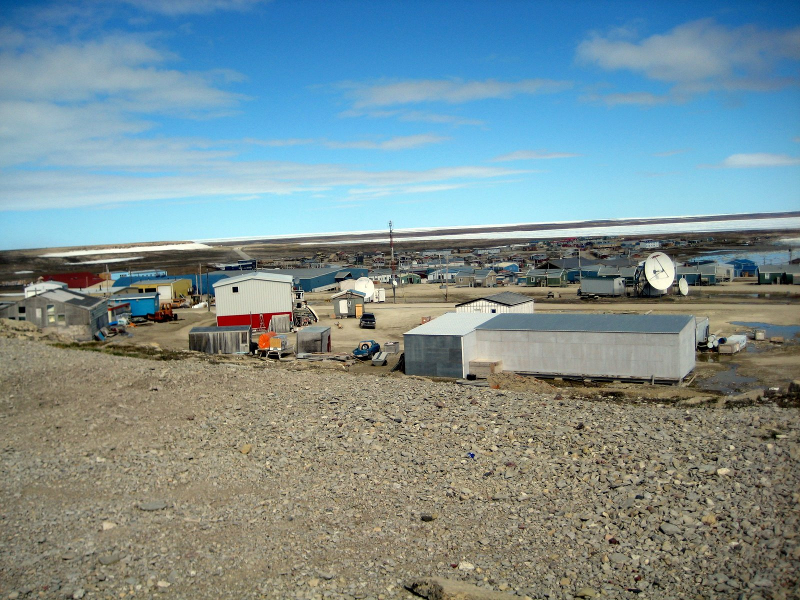 Overlooking the town of Igloolik Nunavut during 24 hour sunlight in 2008.